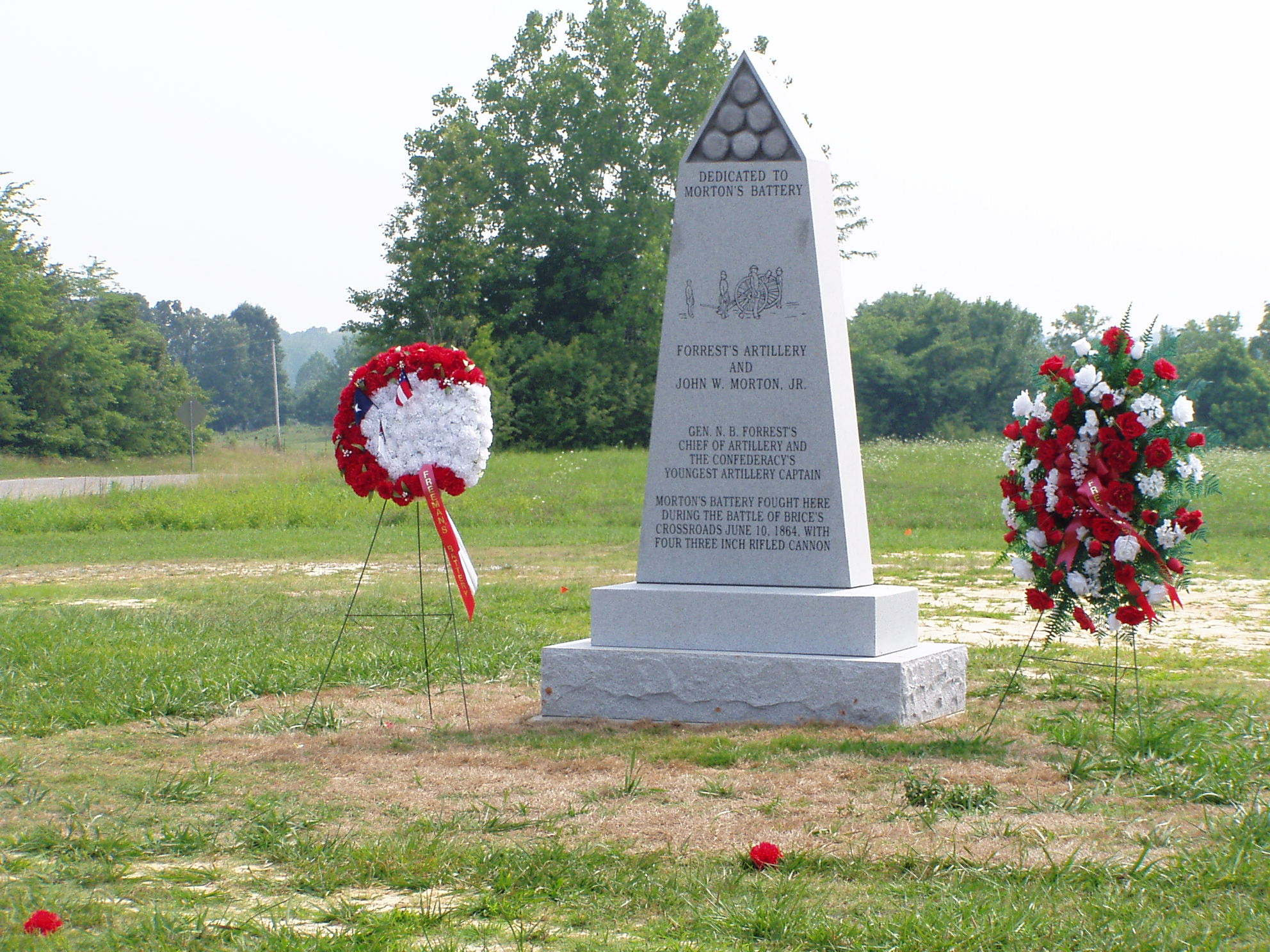 Memorial at Brice's Crossroads (2005), Mississippi.